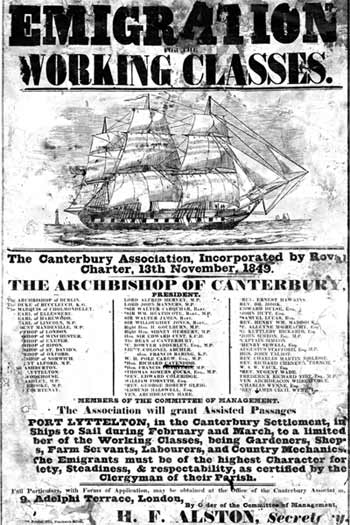 Canterbury Association advertisement